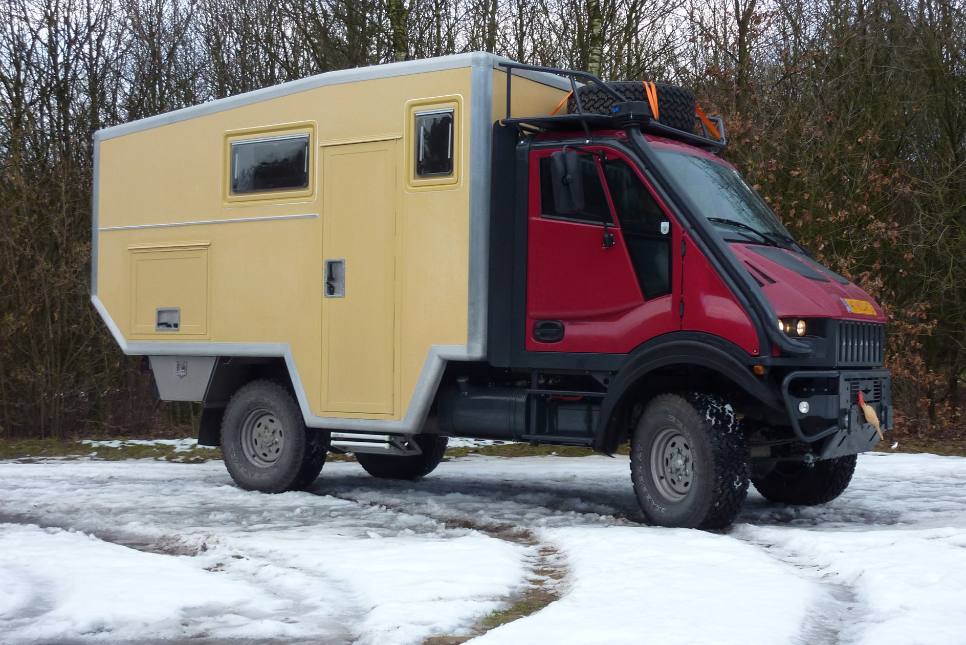 Bremach T-Rex with custom build camper unit for around the world travel.